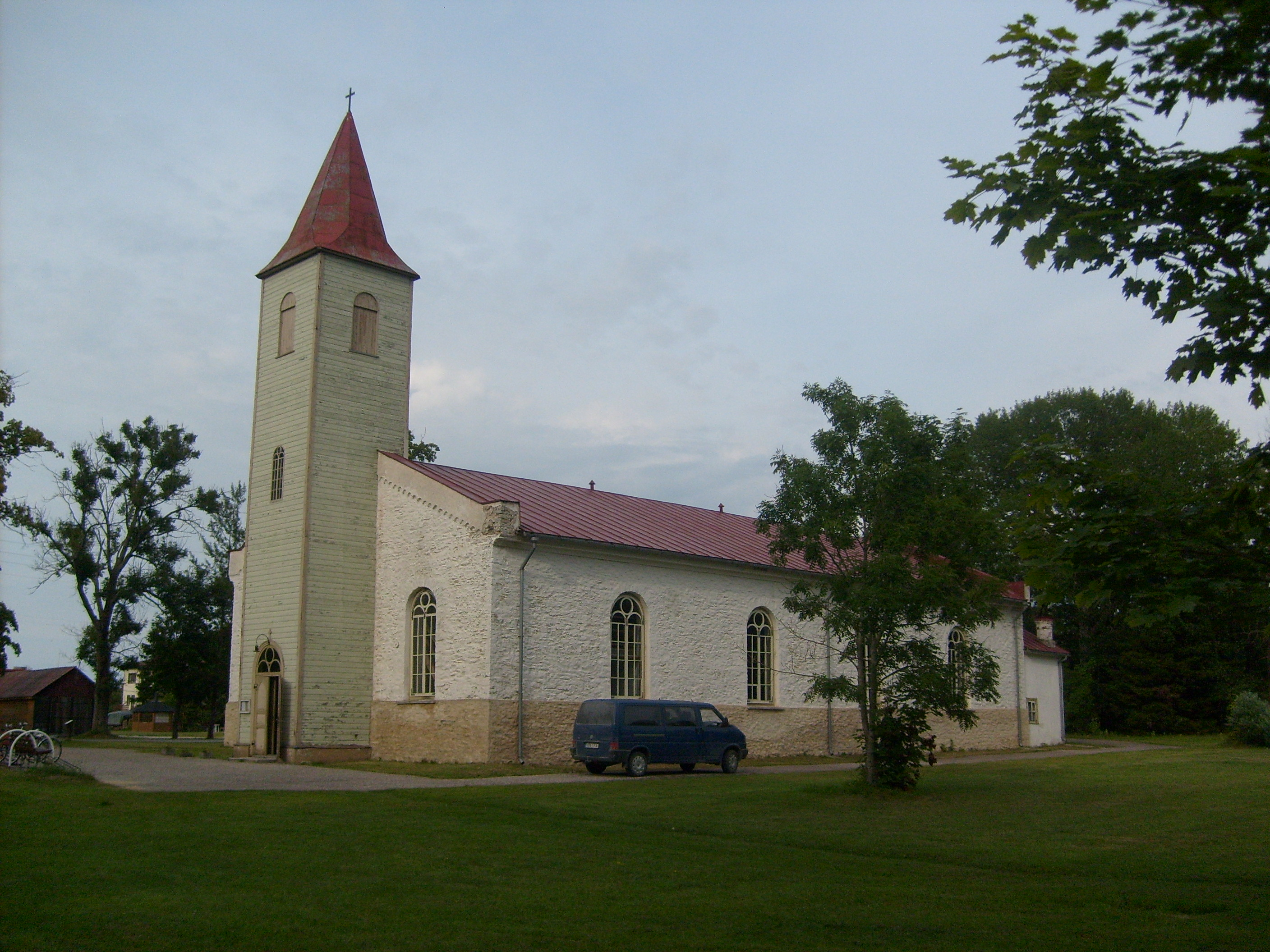 The church in Kärdla, Hiiumaa, Estonia